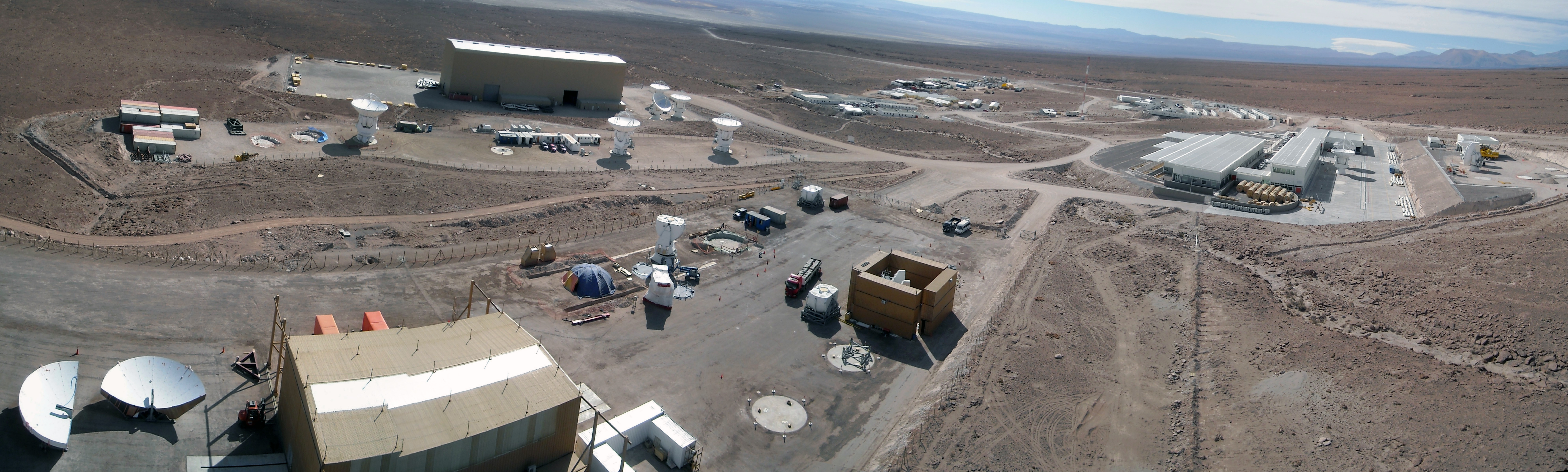 Progress at the ALMA Site - a panoramic view.